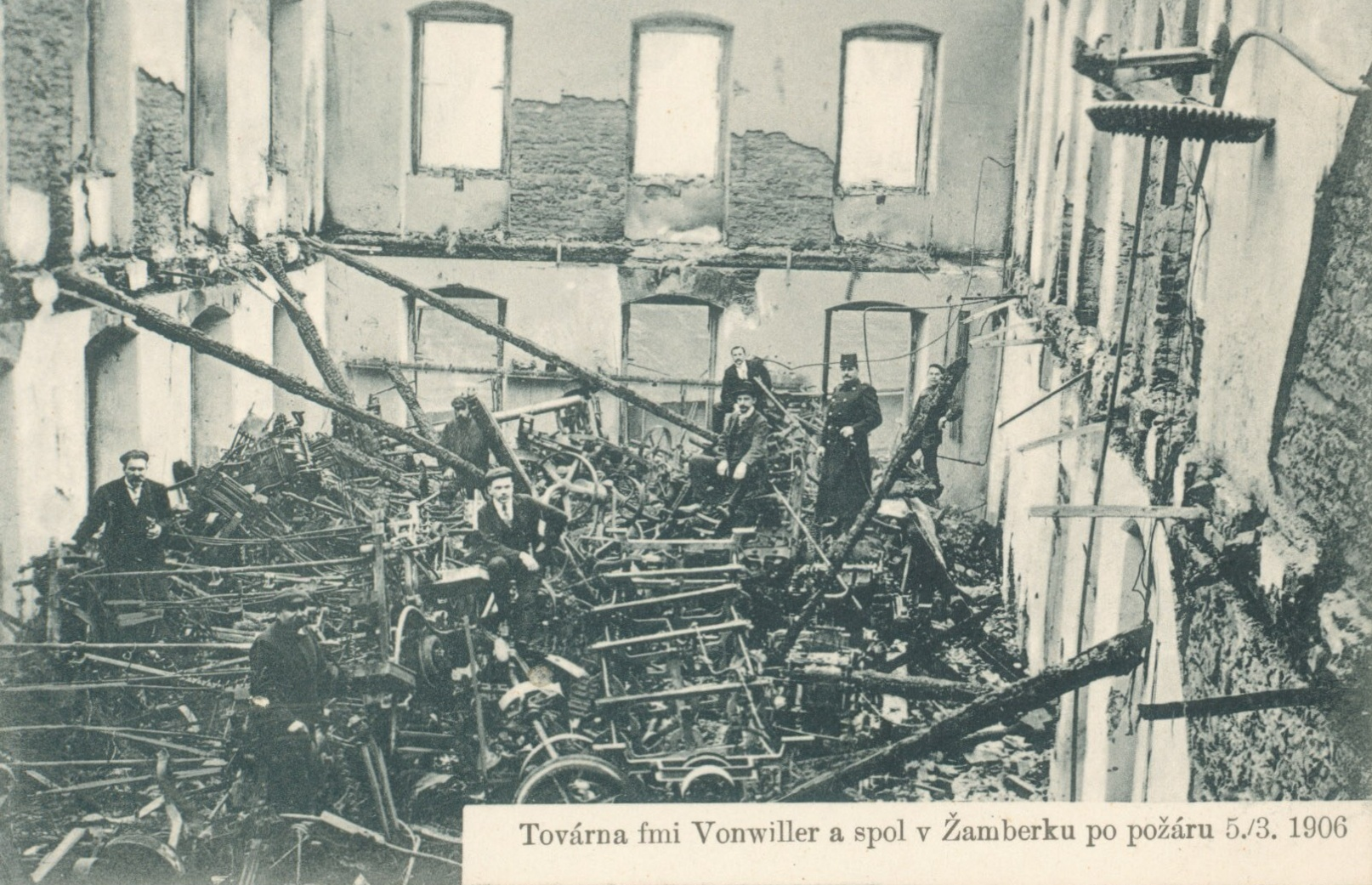 Burnt factory Vonwiller and Co. in Senftenberg (Žamberk)